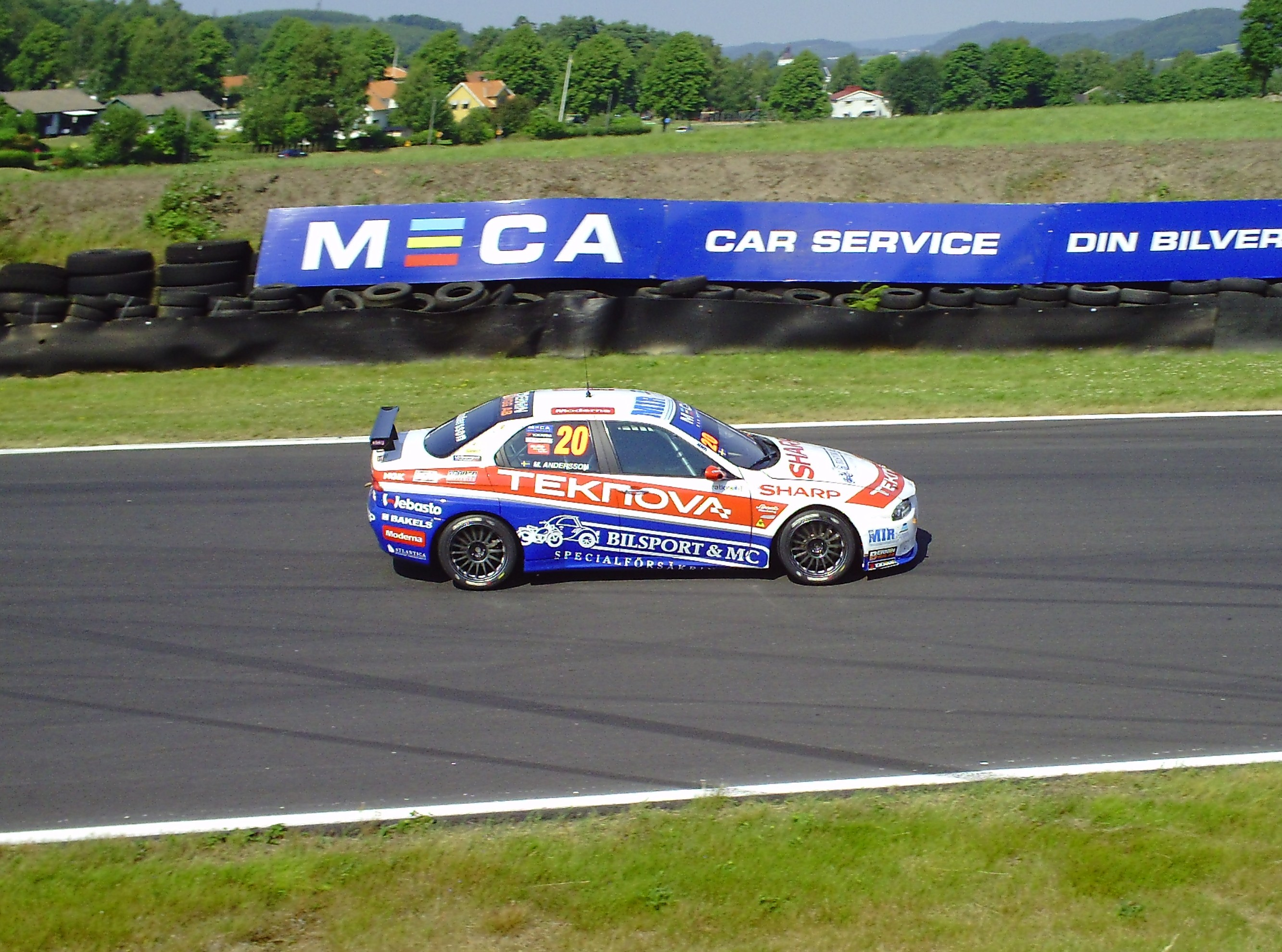 Mattias Andersson in an Alfa Romeo 156 GTA for MA:GP in Swedish Touring Car Championship at Falkenbergs Motorbana 2010.